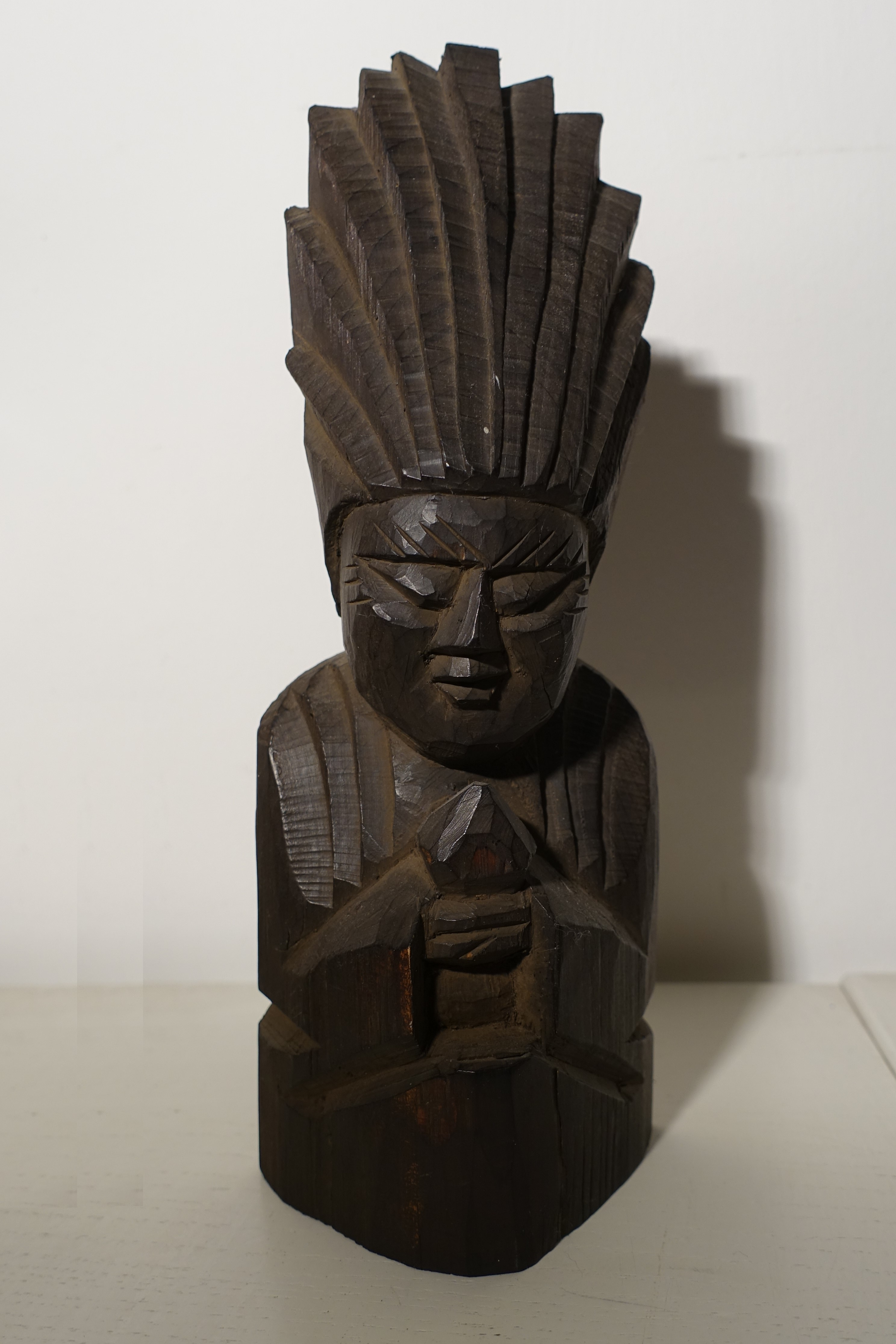 Enku modern